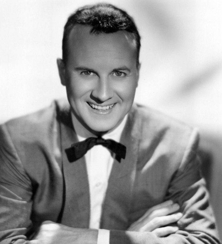 Publicity photo of musician and bandleader Ralph Flanagan.